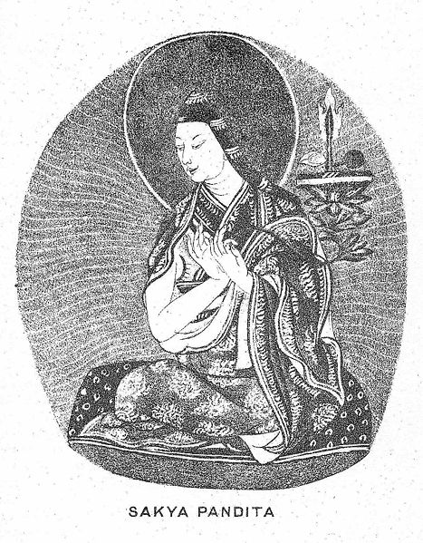 Image taken from a publication by Sarat Chandra Das (1849-1917), "Contributions on Tibet", in the Journal of the Asiatic Society of Bengal Vol. LI (1882), so it is in the public domain. John Hill 01:24, 24 September 2007 (UTC)